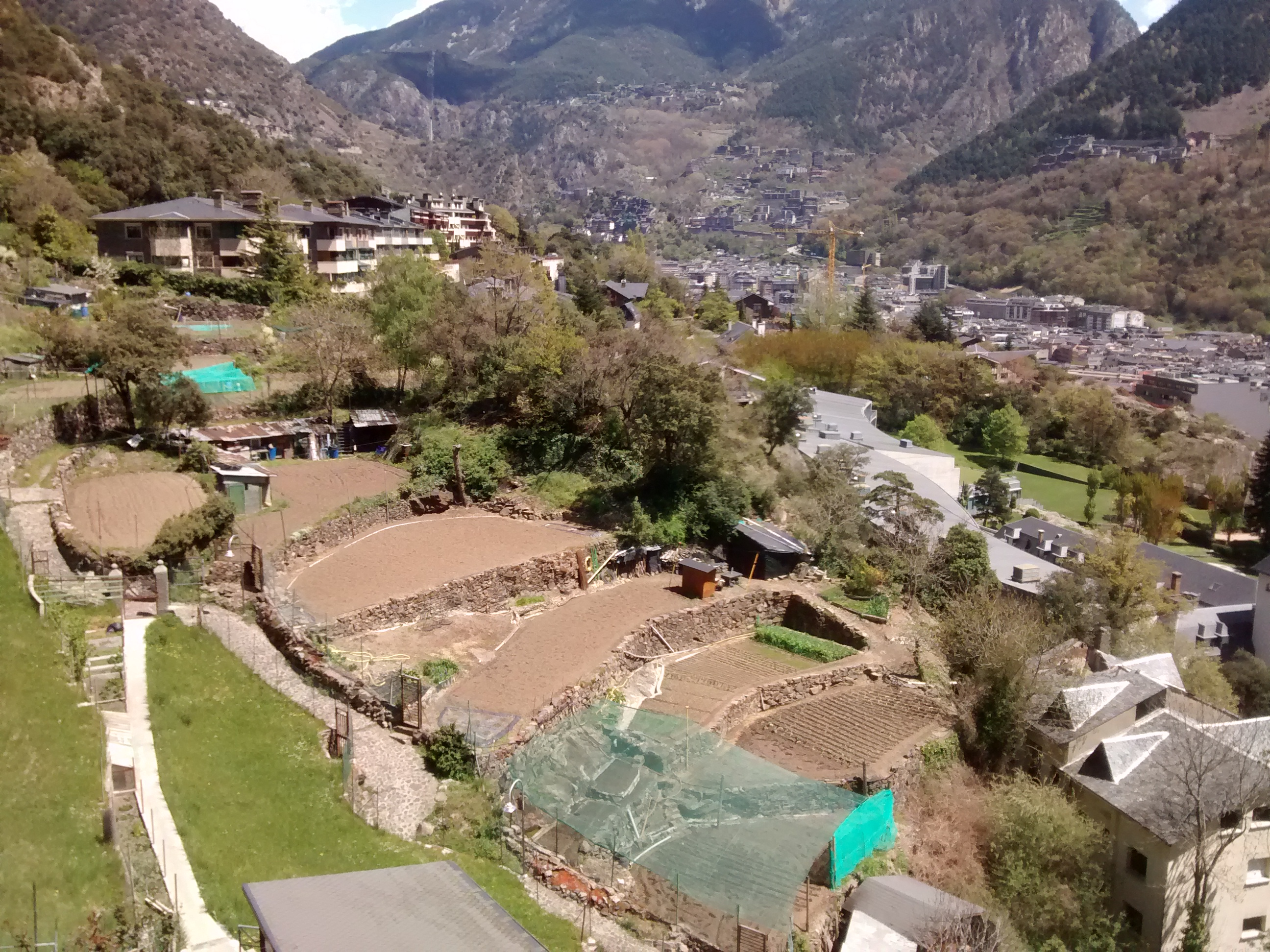 Fields on a southward-facing slope near Andorra la Vella.